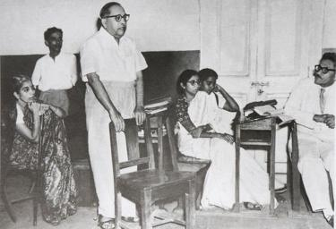 Dr. Ambedkar addressing to students of Siddharth College, Mumbai during the inauguration of 'Students Parliament'